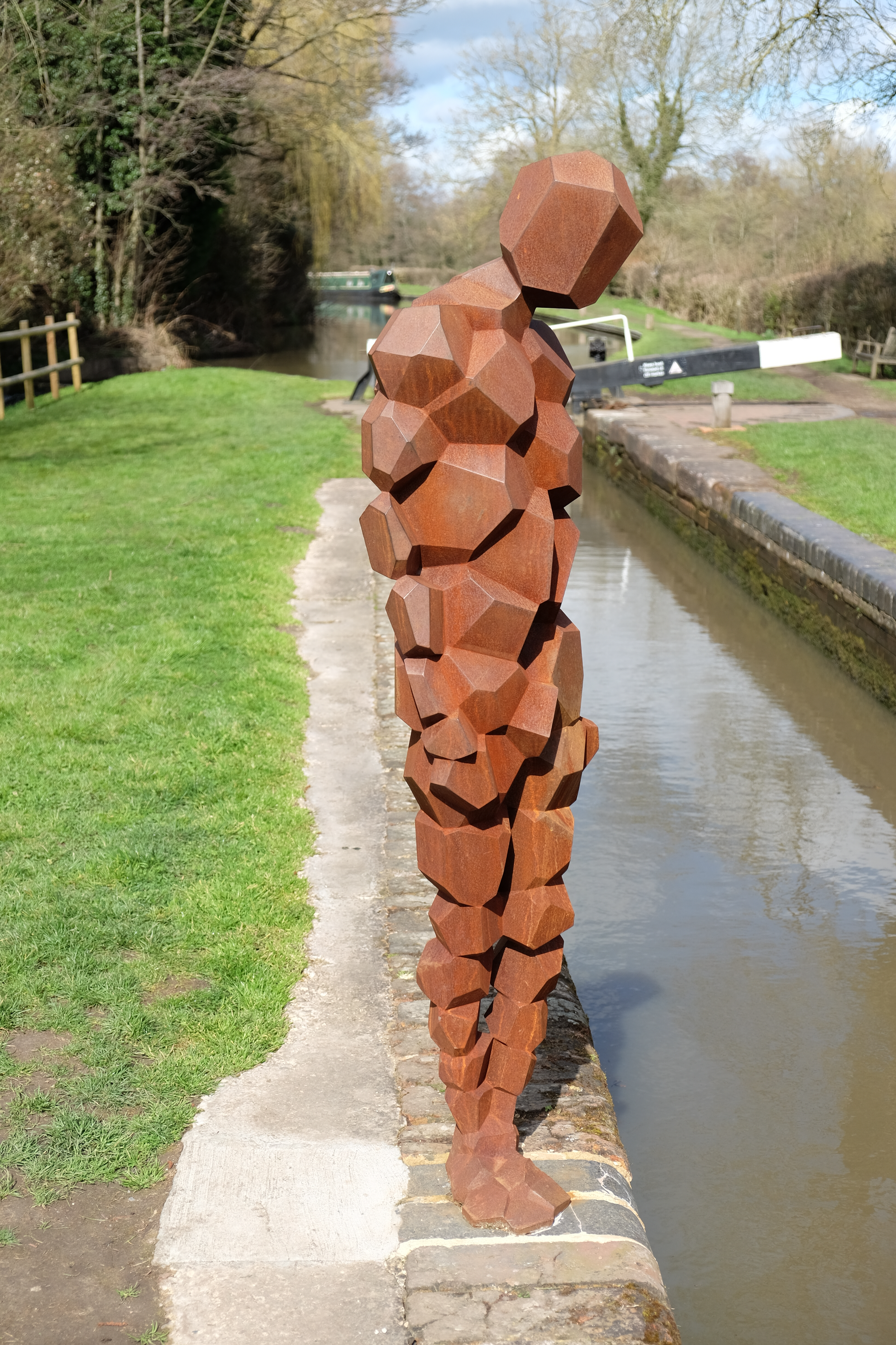 Land by Antony Gormley one of five sculputures commissioned by the Landmark Trust to mark their 50th anniversary. This one is located at their Lengthsman's Cottage on the Stratford-upon-Avon Canal in Lowsonford, Warwickshire.